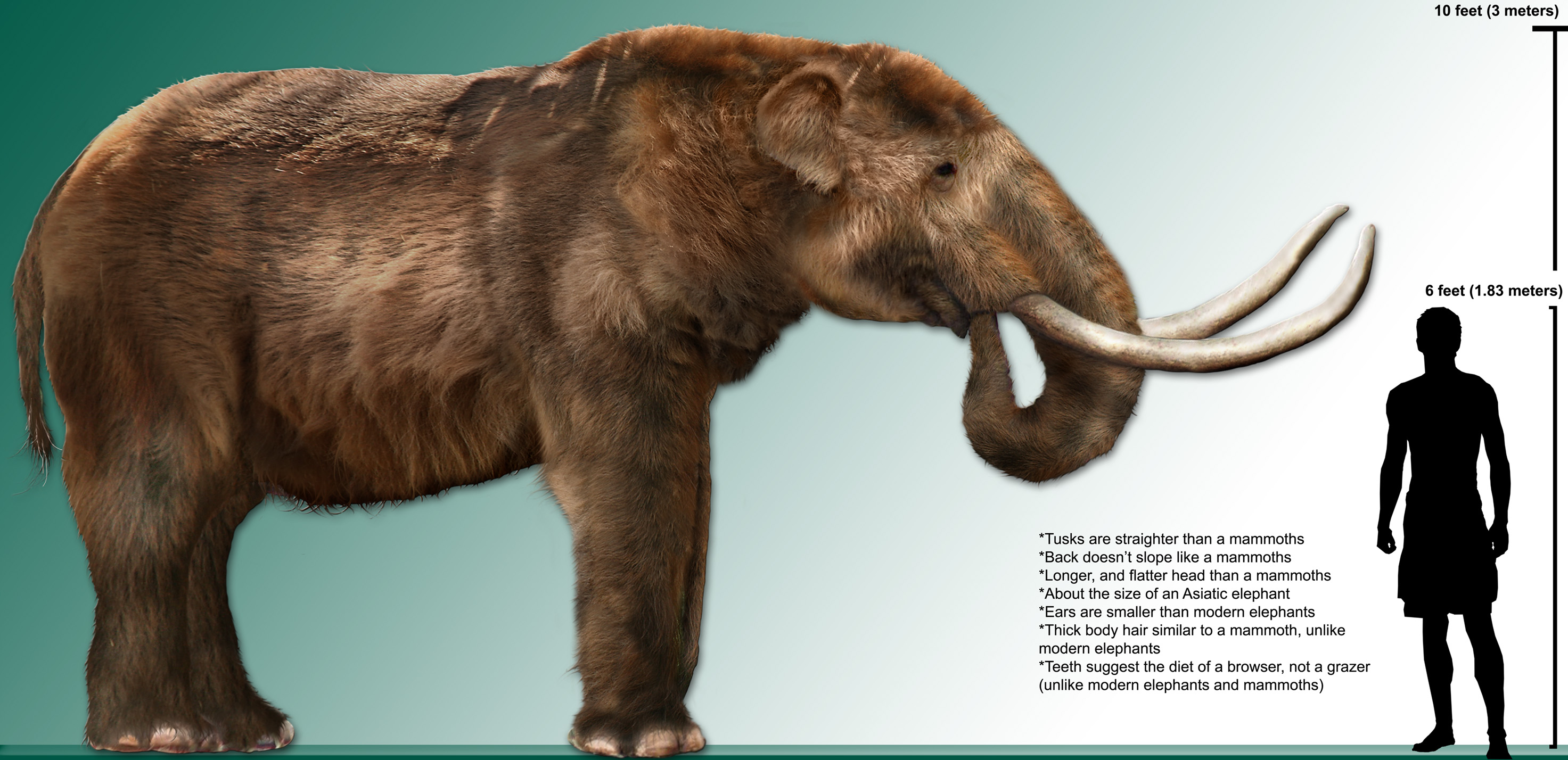 mastodon rendering